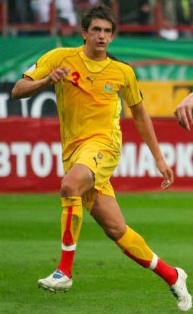 Goran Popov in Macedonia national football team